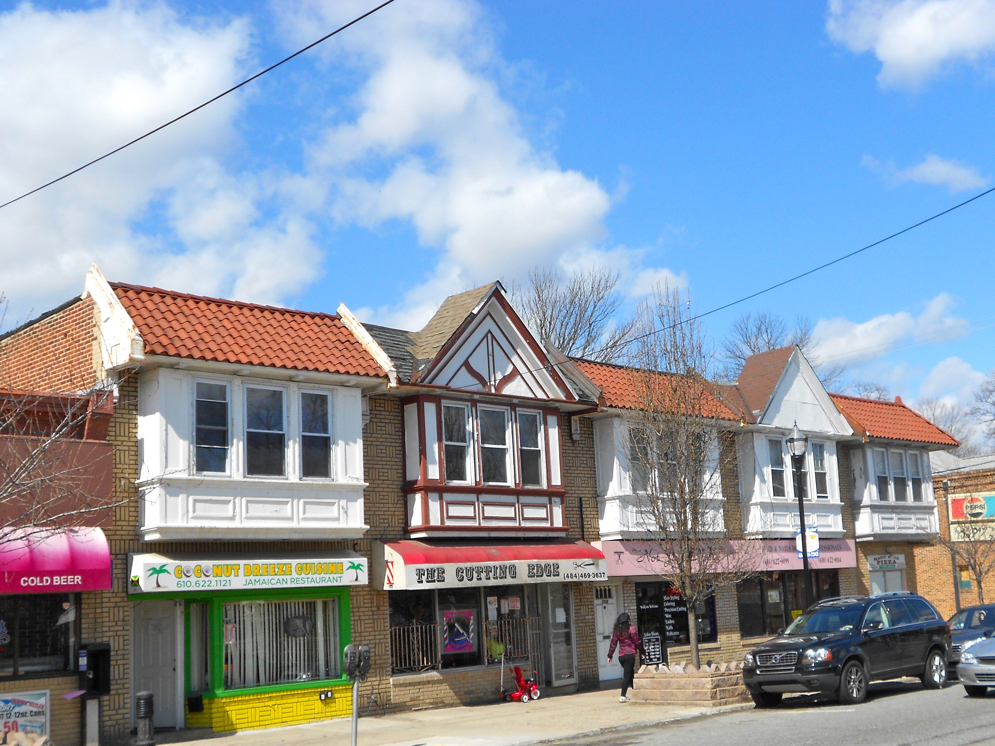 Stores in downtown Yeadon, Delaware County, Pensylvania